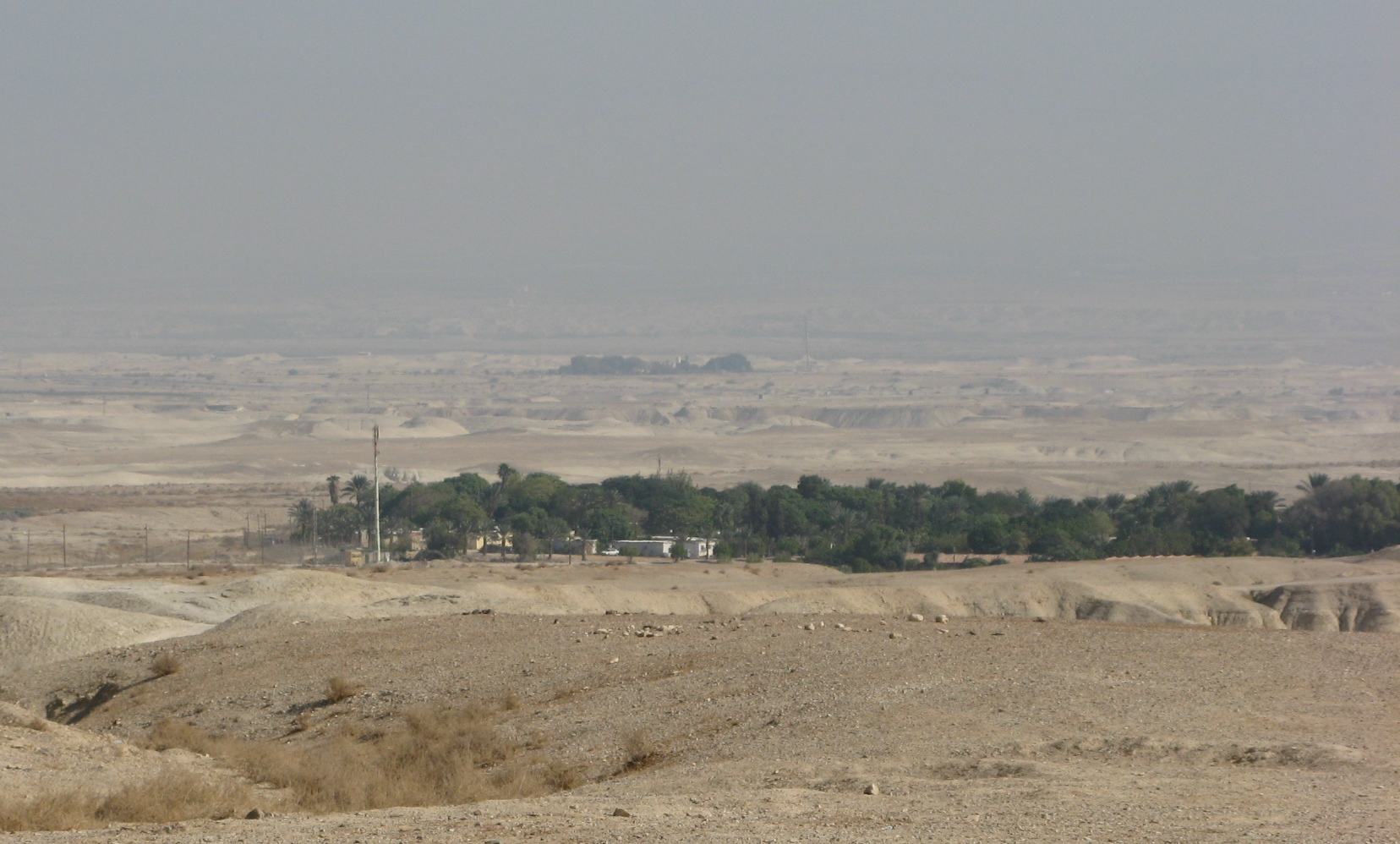 Kibbutz Almog from the west